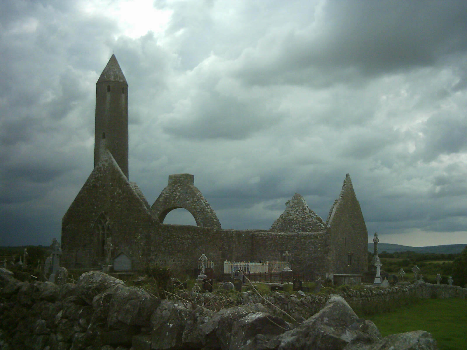 Cathedral at Kilmacduagh monastery, with round tower in background